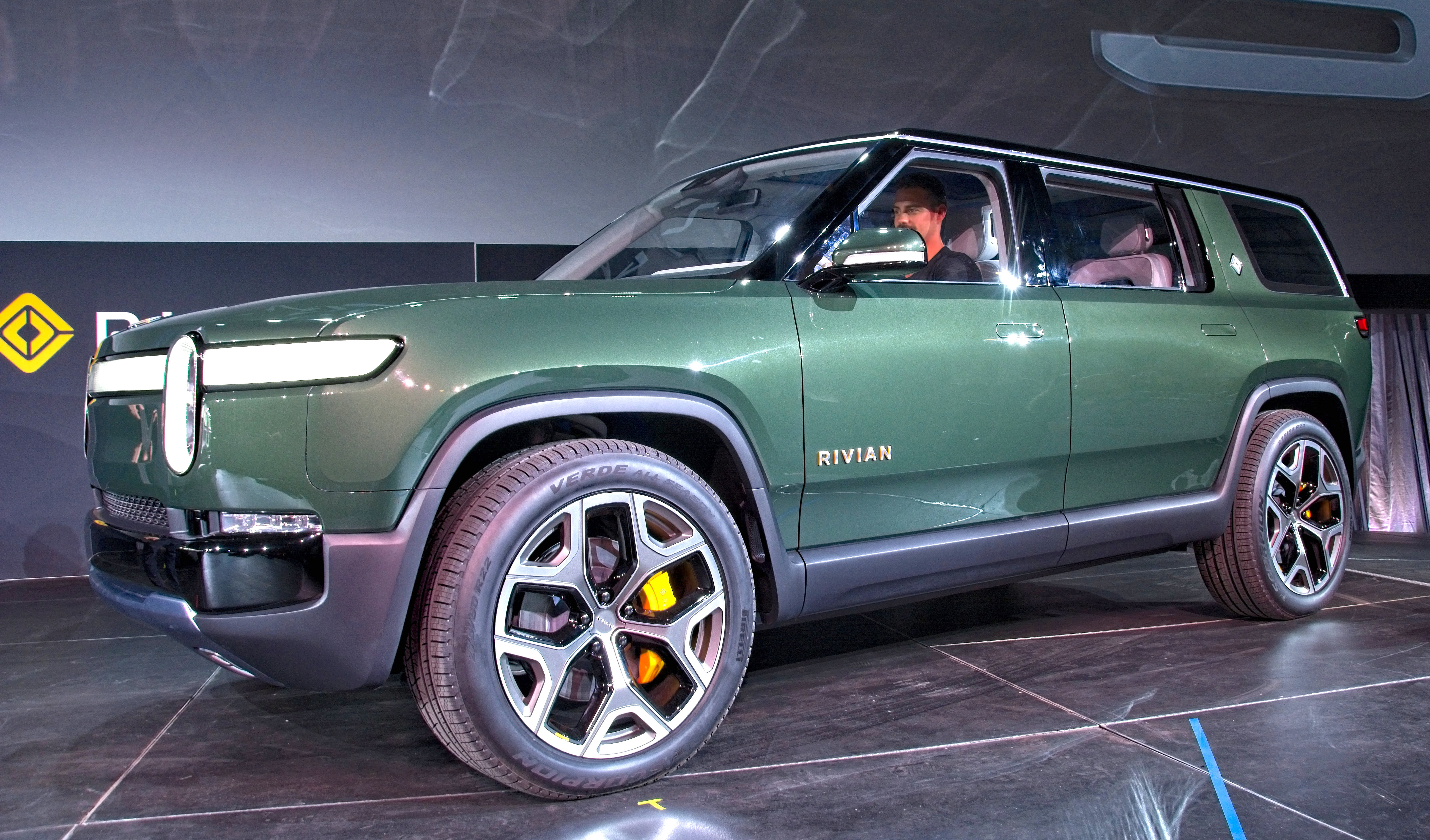 Debut of the Rivian R1S SUV at the 2018 Los Angeles Auto Show, November 27, 2018.if using this image